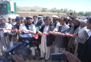 Local leaders and district citizens gather to watch the arrival of potable water during the grand opening ceremony of the Karez irrigation system repair project in Sayed-Abad district, Wardak province June 10. The Karez project was made possible by locals taking part in the Afghan Public Protection Program. CJSOTF-A courtesy photo